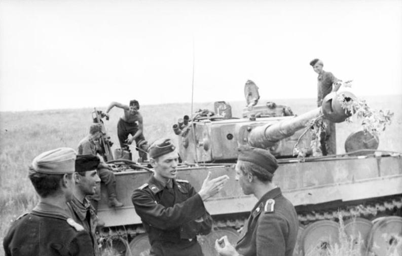 Information added by Wikimedia users.Mid 1943, Tiger 123, 1st Company sPzabt.503